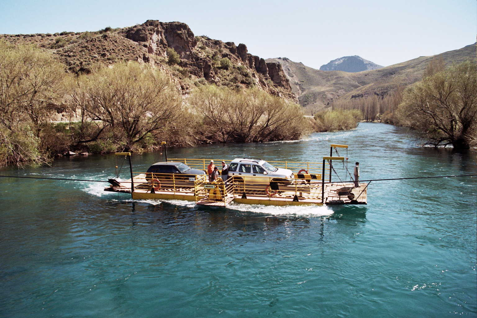 Ferry on Limay River, Villa Llanquin